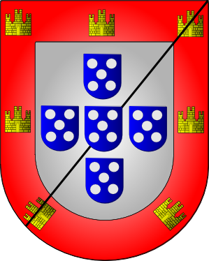 Arms of the Portuguese Lancastre family, Dukes of Aveiro Made by JSobral